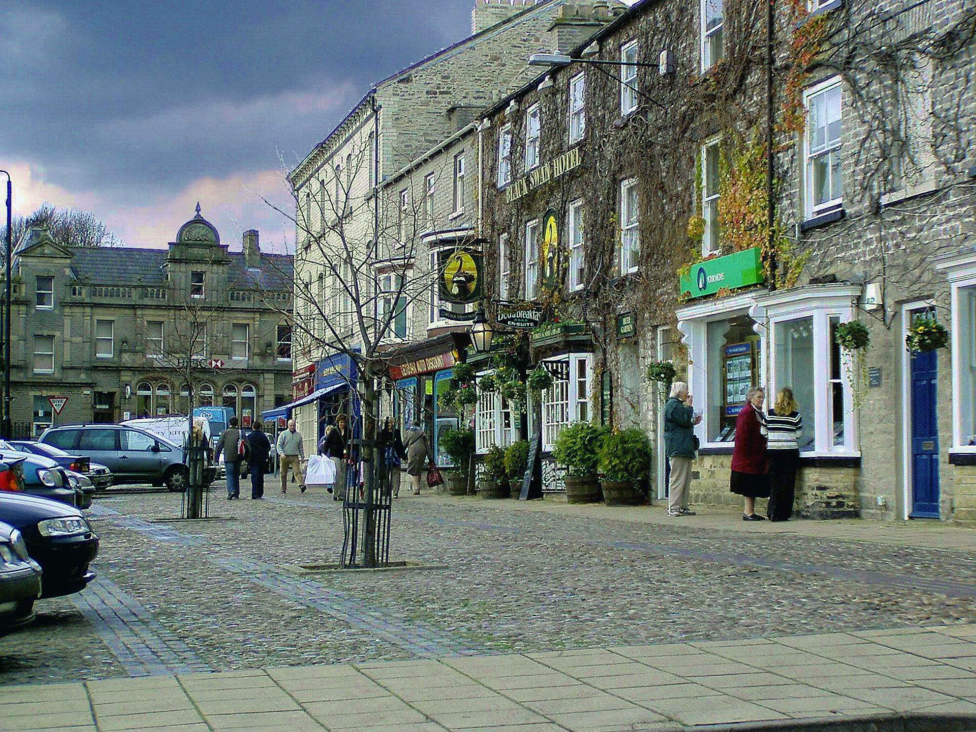 Leyburn town centre